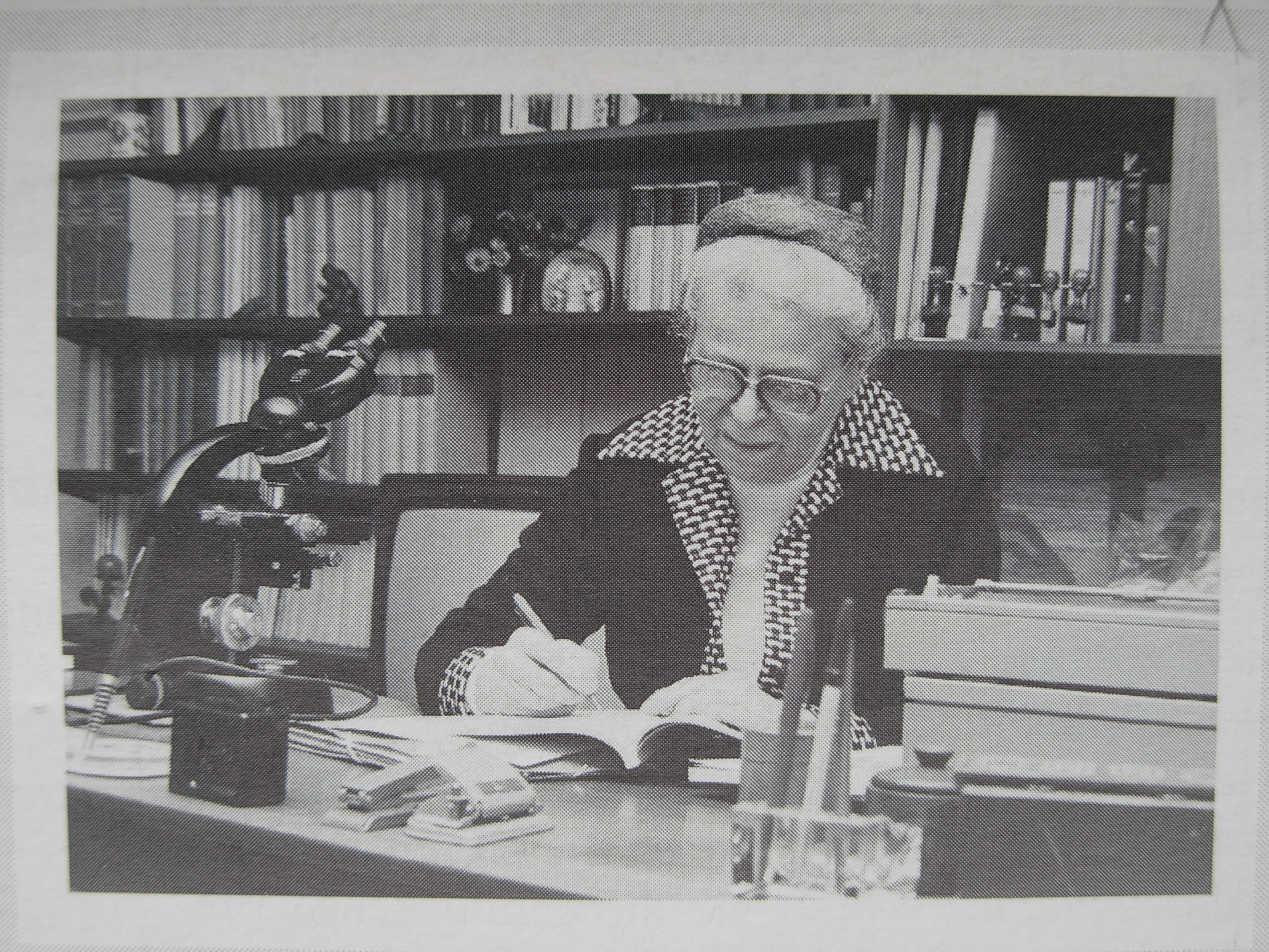 Anna Maurizio in her house in Liebefeld near Bern, ca 1970